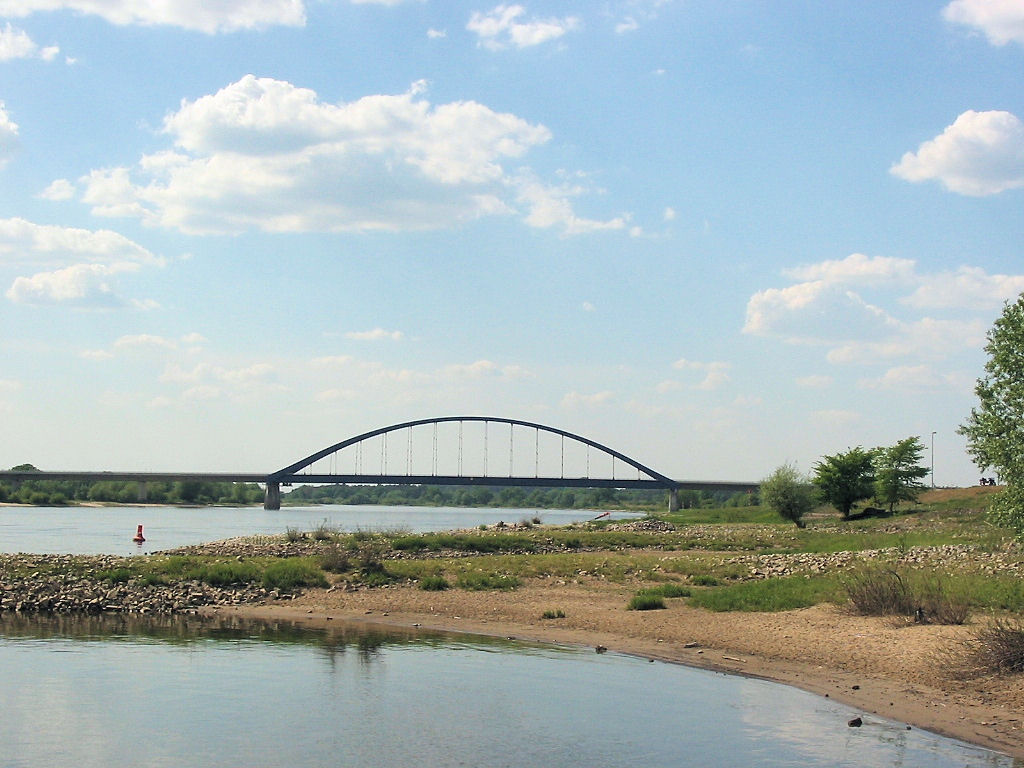 Bridge of the federal road B 191 over the river Elbe near Dömitz, Mecklenburg-Vorpommern, Germany, leading to Landkreis Lüchow-Dannenberg, Niedersachsen.